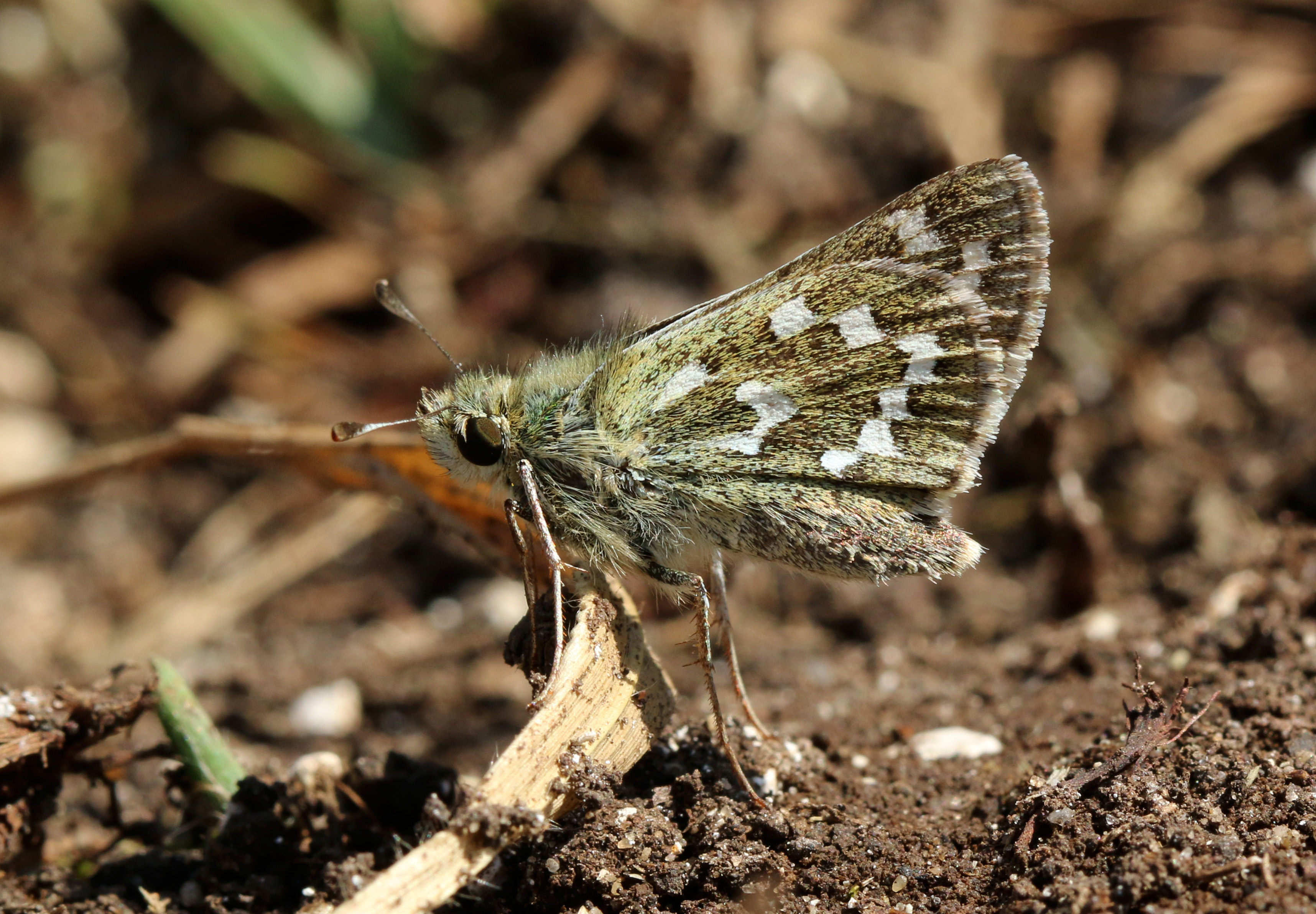 Silver-spotted skipper butterfly (Hesperia comma) female, Aston Rowant NNR, Oxfordshire